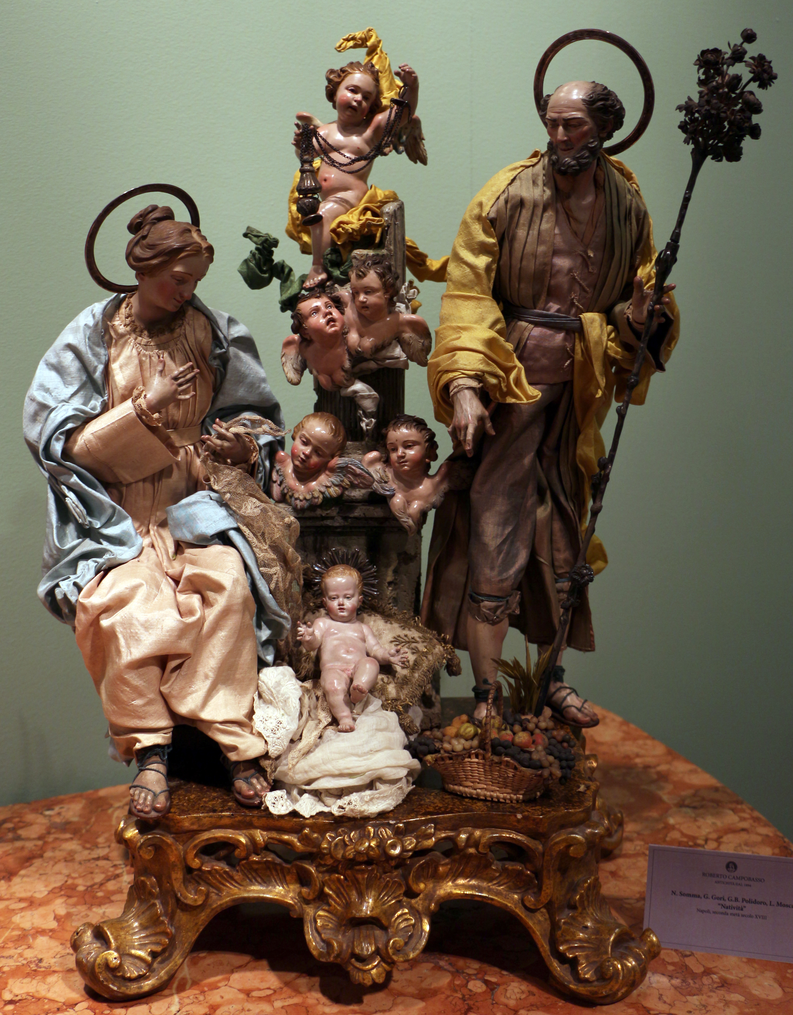 Courtesy of Roberta Campobasso, Antichità dal 1894